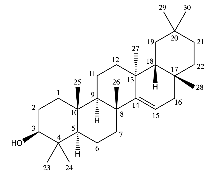 Taraxerol molecule with numbered carbons for carbon identification